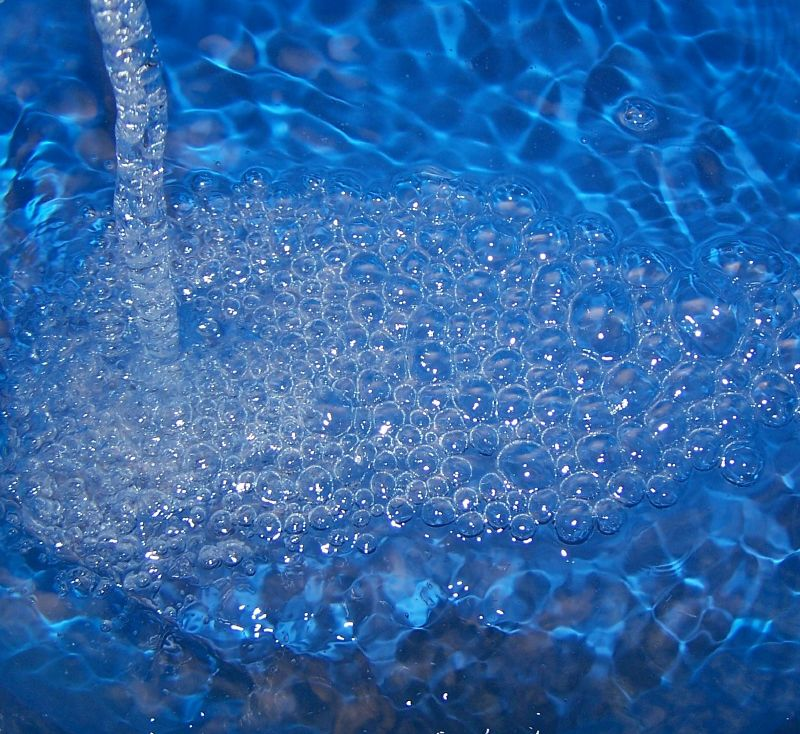 picture of water being poured into water